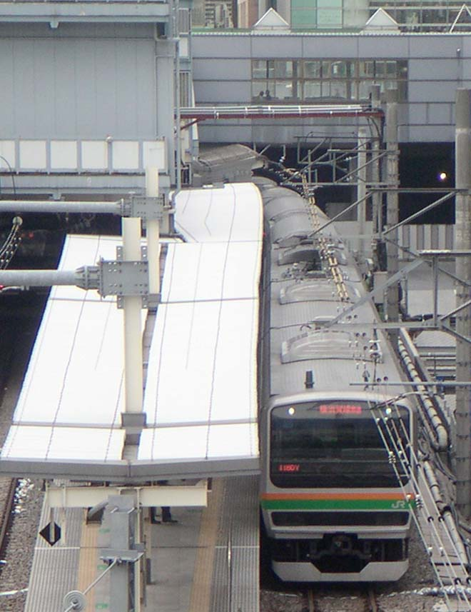 Shinjuku Station Platform 1 for Shonan-Shinjuku Line trains